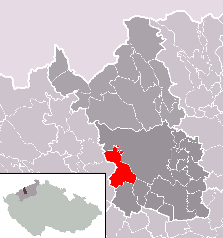 Location of Malé Březno municipality within Most District and administrative area of Most as a Municipality with Extended Competence.